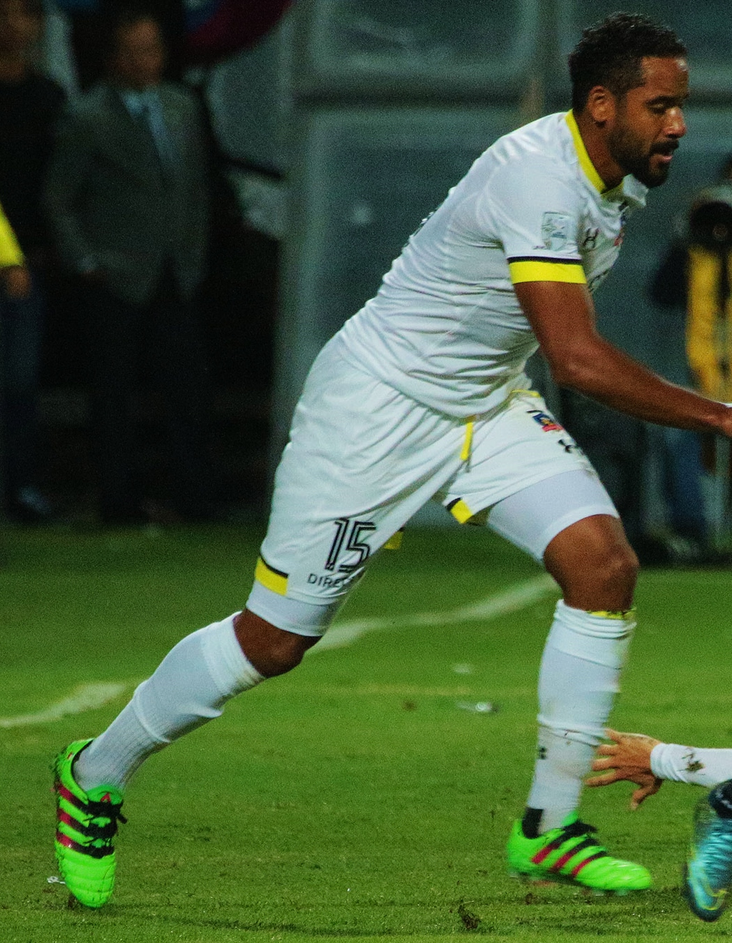 Jean Beausejour